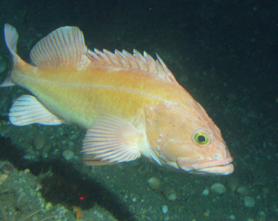 Yelloweye rockfish (Sebastes ruberrimus) observed off Point Sur during a sanctuary seafloor monitoring survey using the Delta submersible.